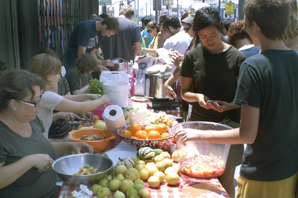 Public Fruit Jam, Machine Project, Public Demonstration, documentation, 2006-2009